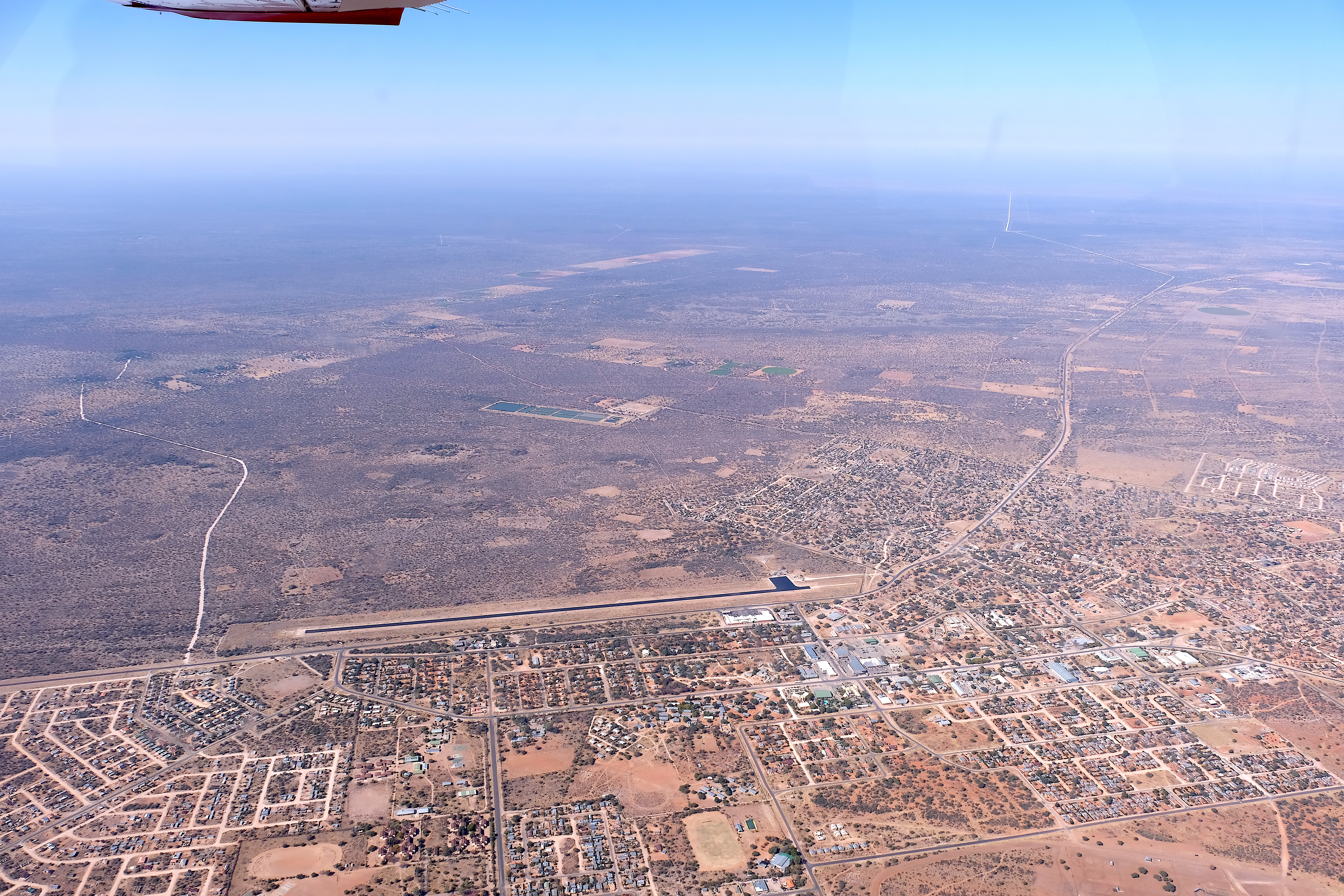 Ghanzi aerial view (2018)